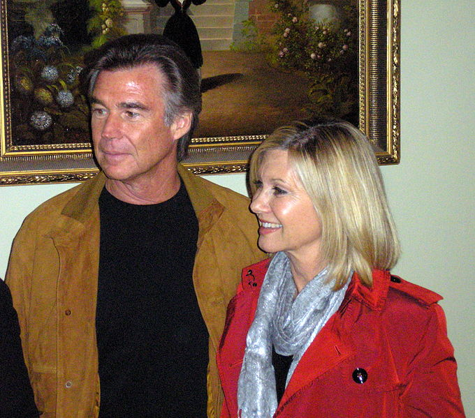 Olivia Newton-John and John Easterling at the Hungarian Academy of Sciences, 02 October 2010, Pink Ribbon Day, Budapest, Hungary